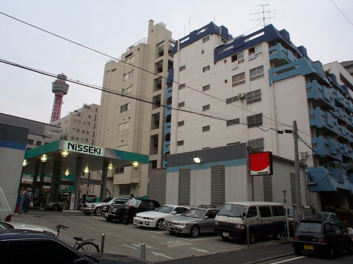 Yamashita-cho, Yokohama City, Japan